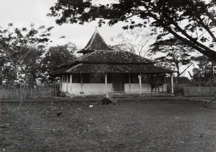 Mosque, Anjatan